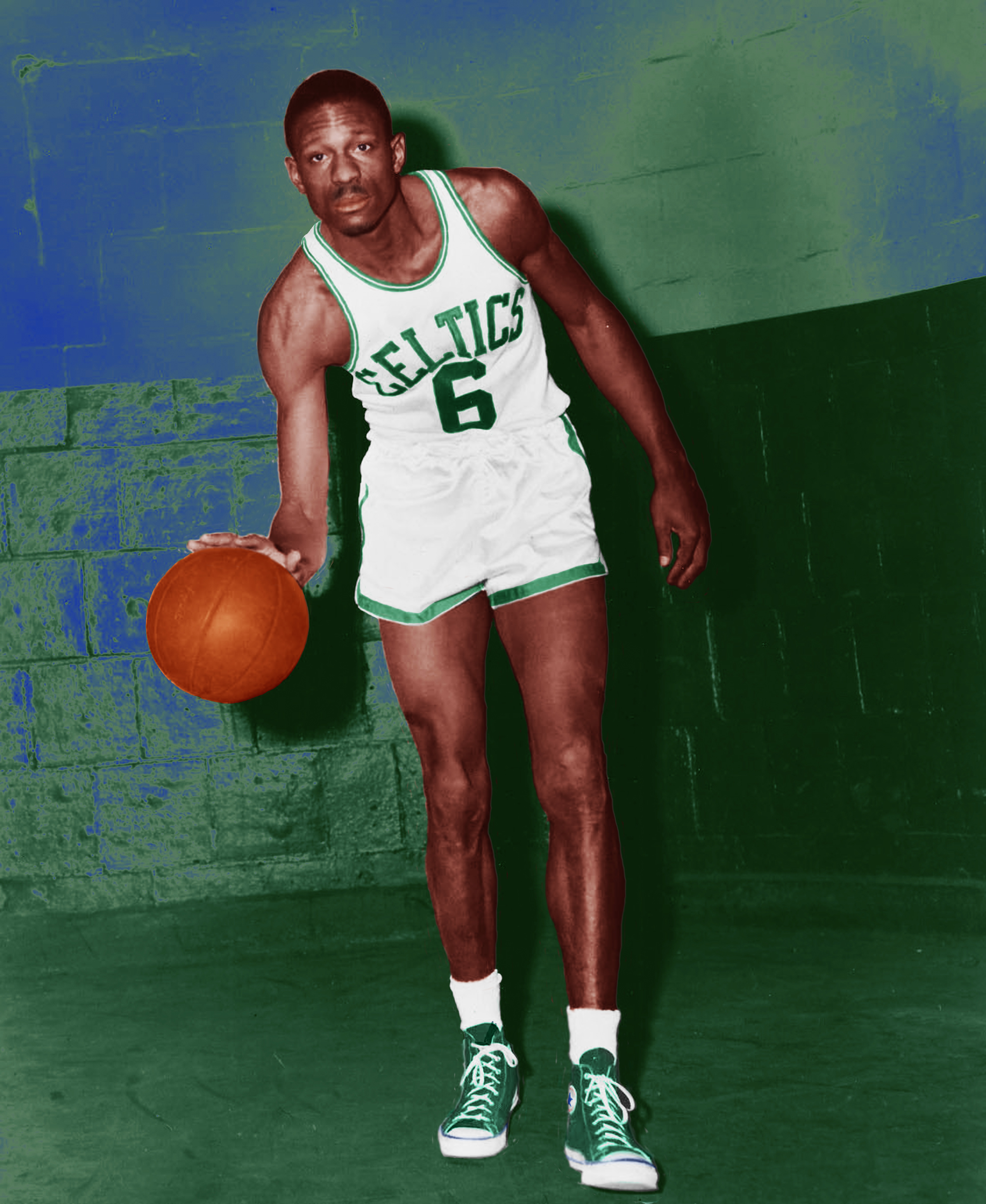 Former Boston Celtics player, Bill Russell, during his first years with the franchise. Color edition by user Sportingn